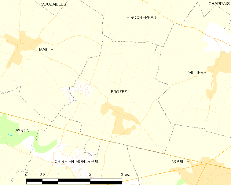 Map of French municipality Frozes